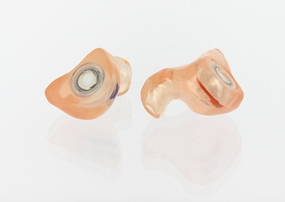 Custom Earplug ER25 - Elacin